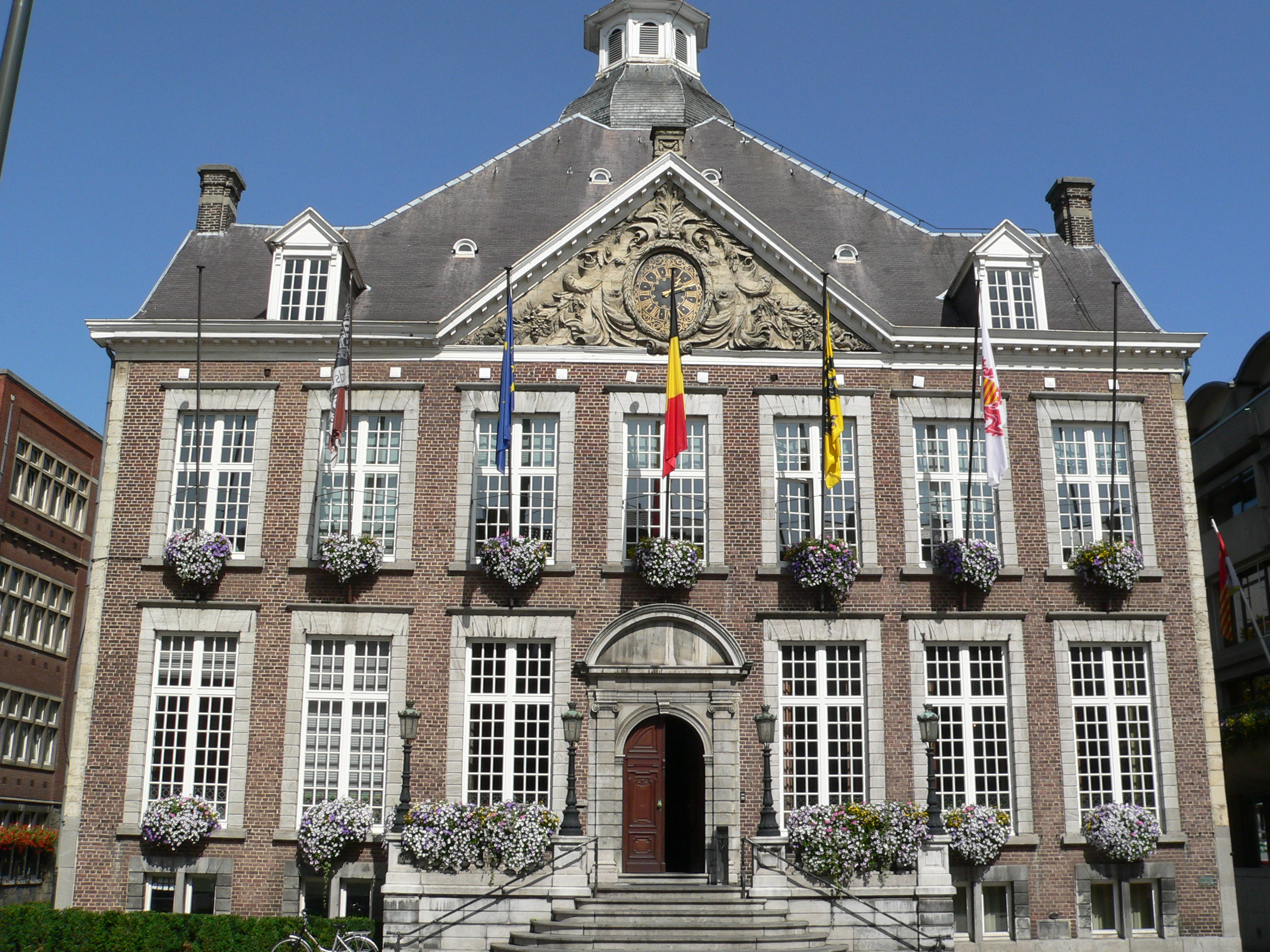 town hall in Hasselt (Belgium)